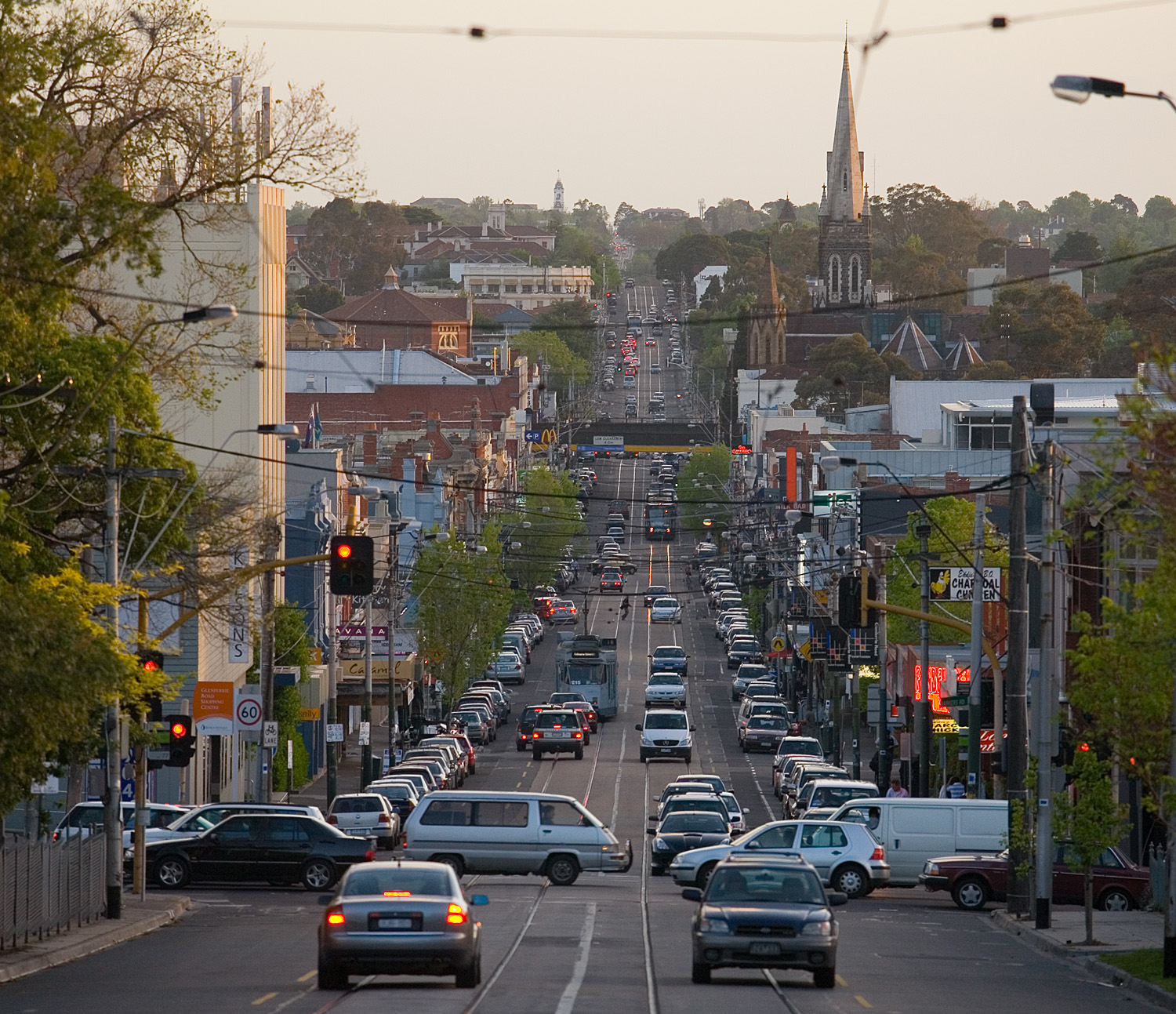 A photo looking down from Kew towards the main shopping street in Hawthorn - Glenferrie Road. Taken with a Canon 5D and 24-105mm f/4L IS lens